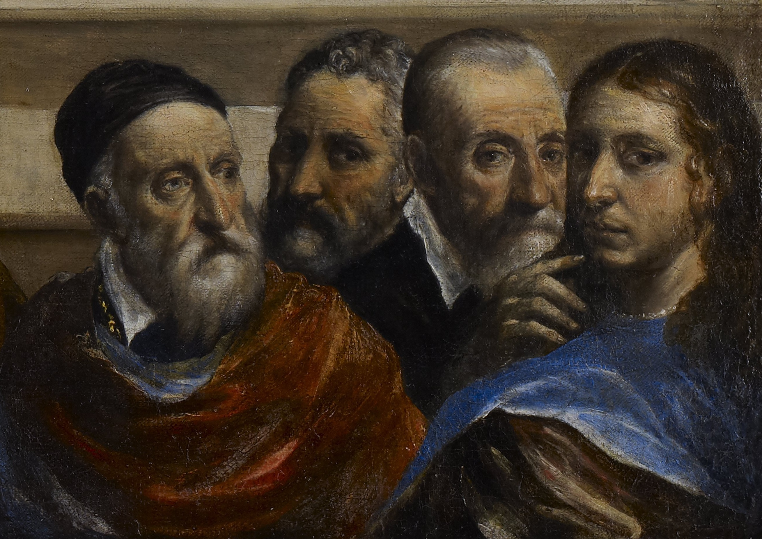 The giants of the Renaissance: Titian, Michelangelo, Giulio Clovio and Raphael.